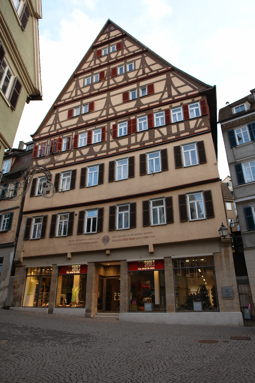 The Calwer House in Tübingen (Germany) in Kronenstraße 17, here seen from Kirchgasse